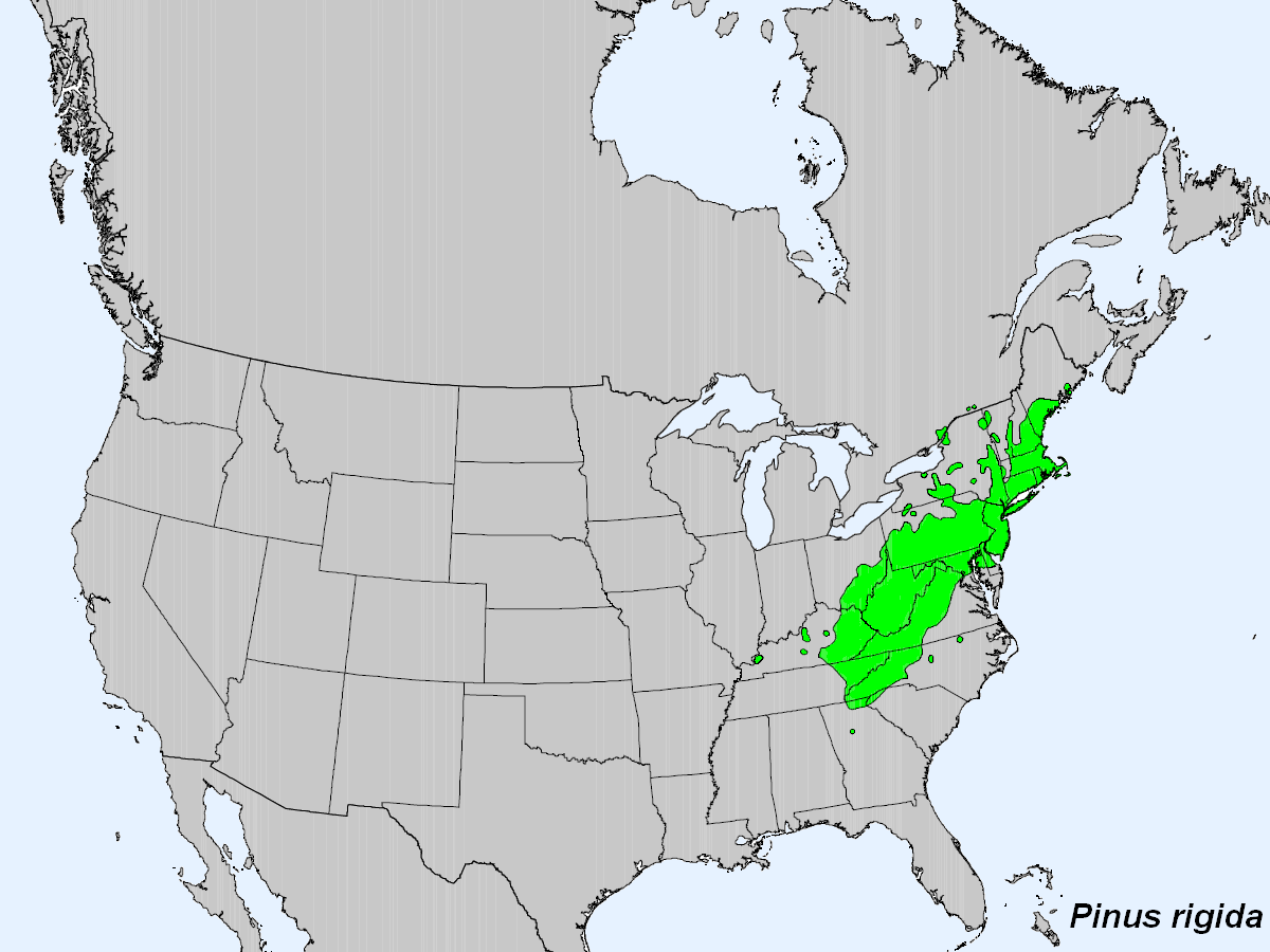 Range map of pitch pine (Pinus rigida)